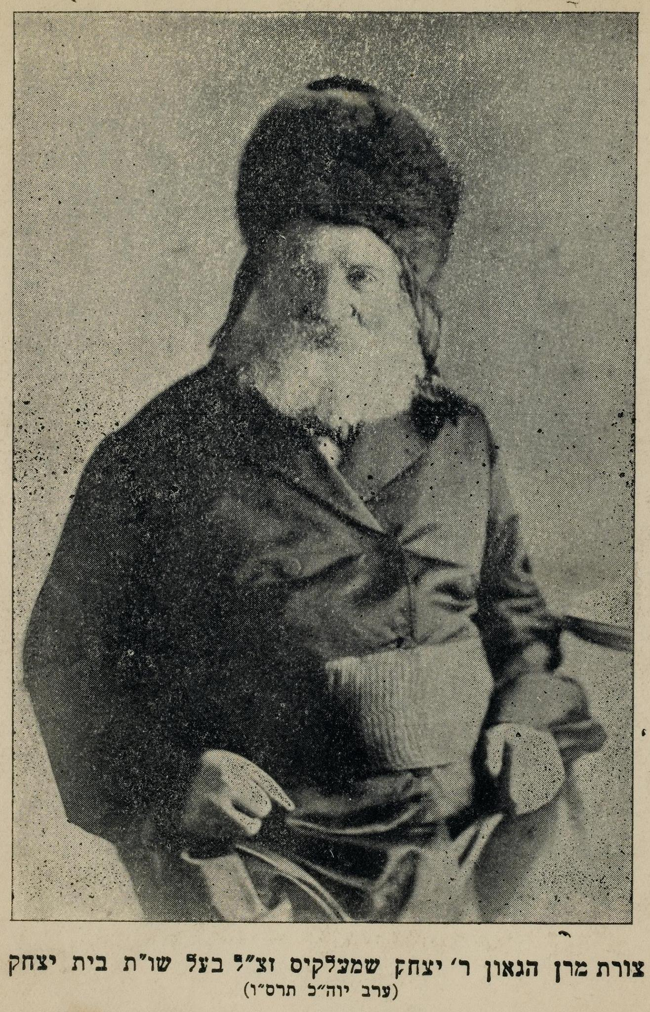 Portrait of Rabbi Yitsḥak Yehudah Schmelkes (1828–1906)